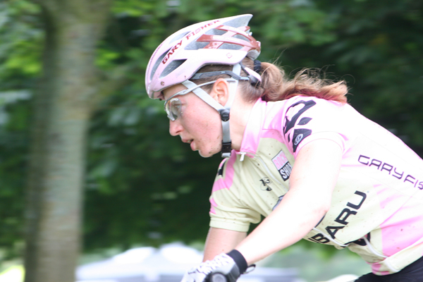 Jenny Copnall competing at the British National Mountain Biking Marathon Championships 2008 at Margam Park.